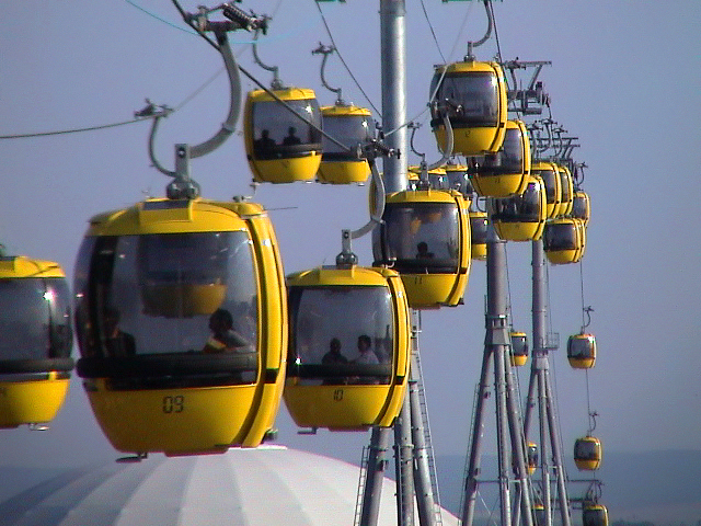 Expo 2000 Hannover, seen by cable car from the center cable car station.